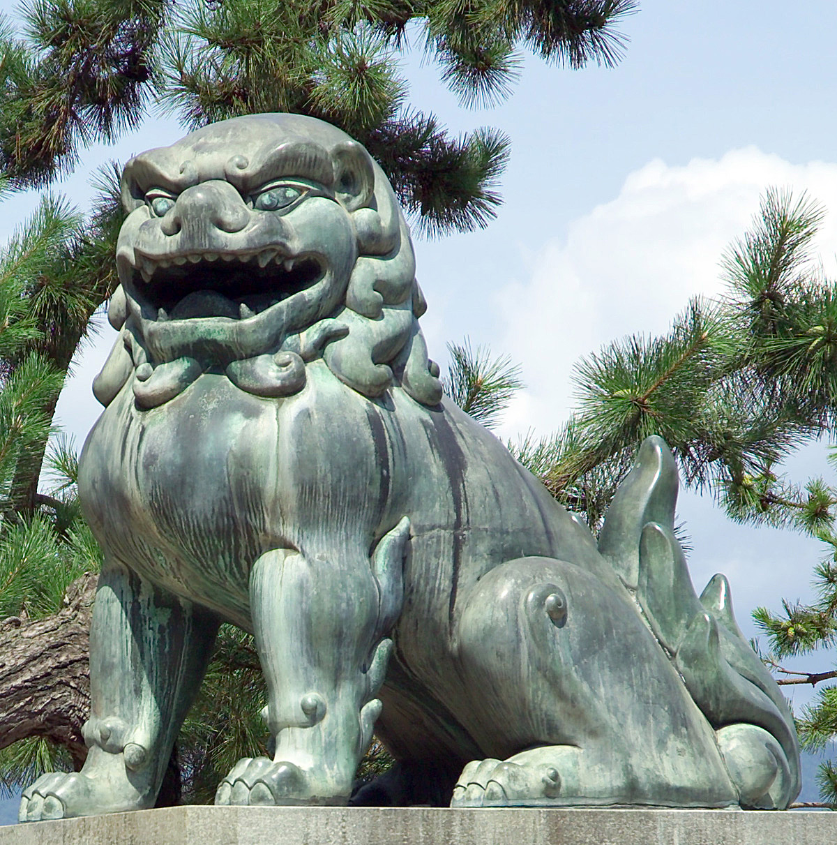 Komainu at Itsukushima Shrine, Miyajima, Hiroshima Prefecture, Japan. I took the photo.